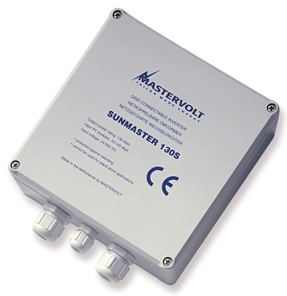 The Mastervolt 130S appears to be the first micro-inverter to be released commercially (the OK4E-100 was another early model). The inverter would normally be mounted to the back of the panel and connected through the compression fittings on the bottom.